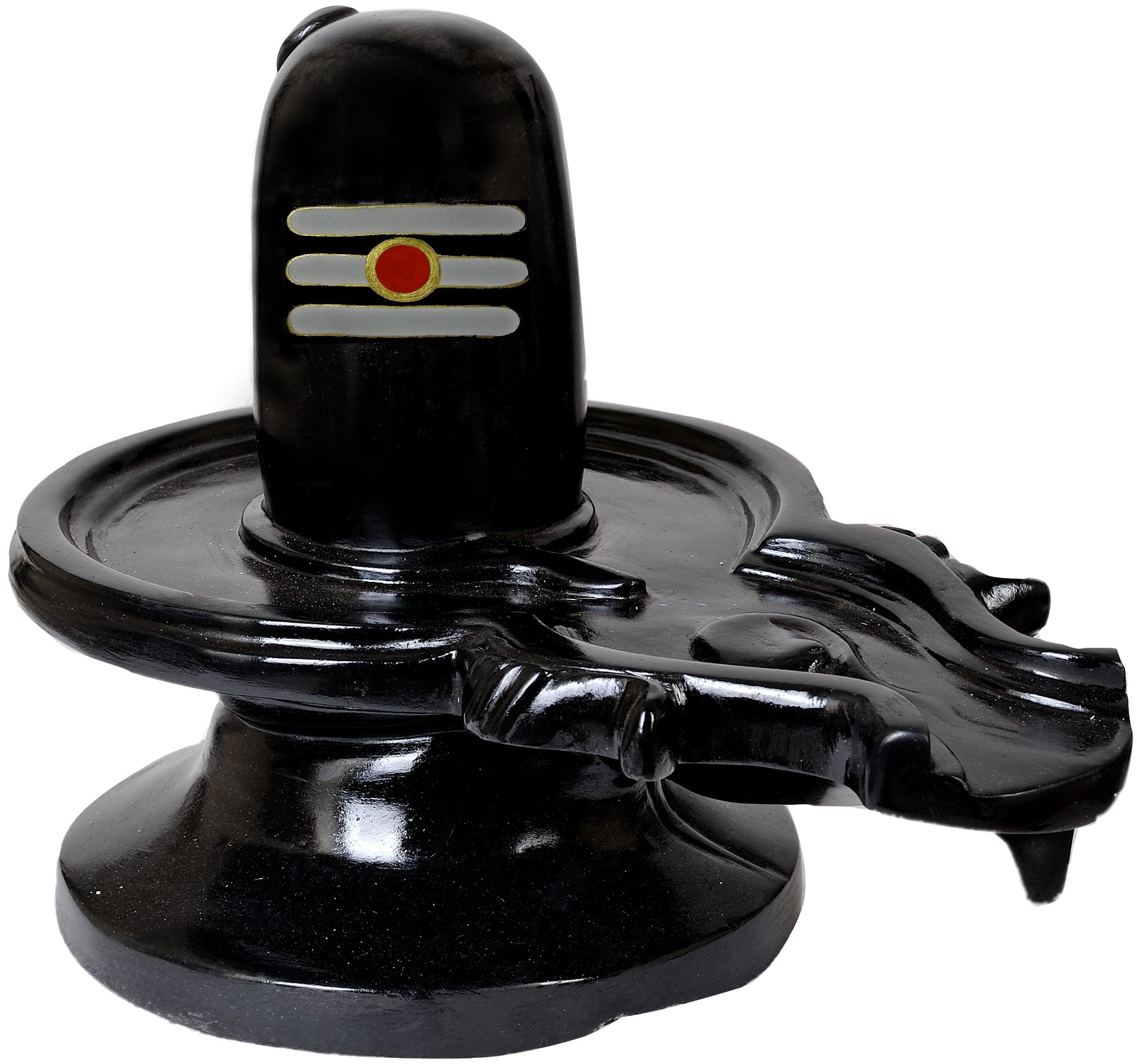 Shiv lingam